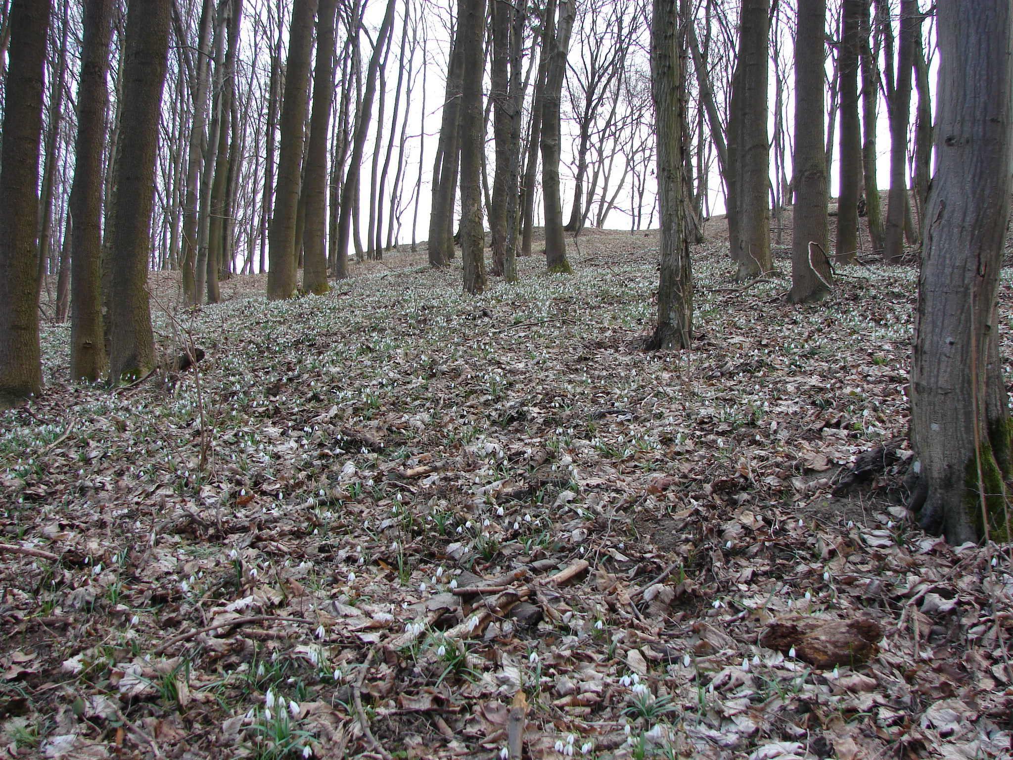 Natural monument Pod Vrchy in Zlín District, Czech Republic